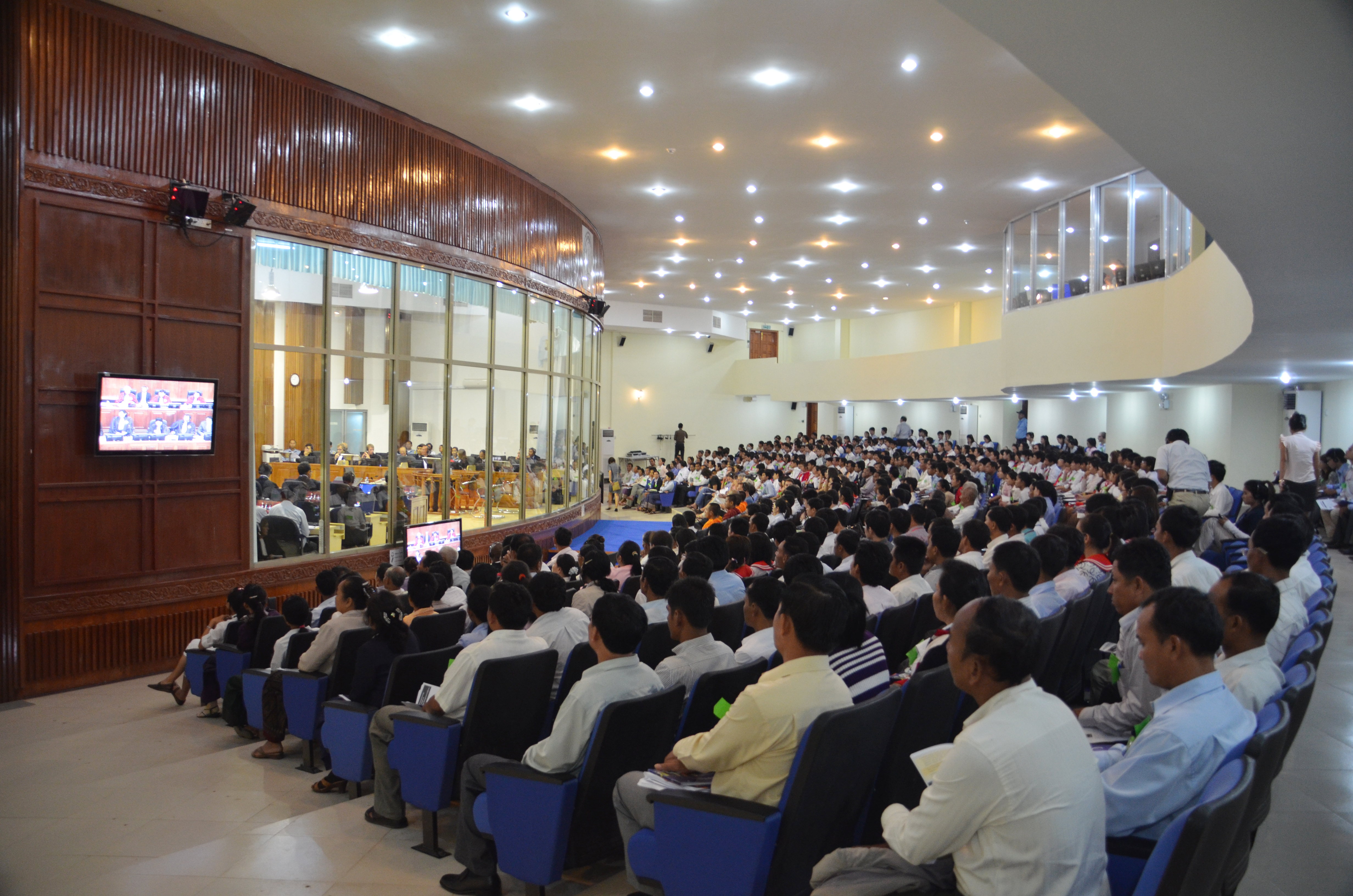 29 Aug 2011: All 482 seats in the public gallery were occupied when the Trial Chamber held a preliminary hearing on Ieng Thirith's and Nuon Chea`s fitness to stand Trial.